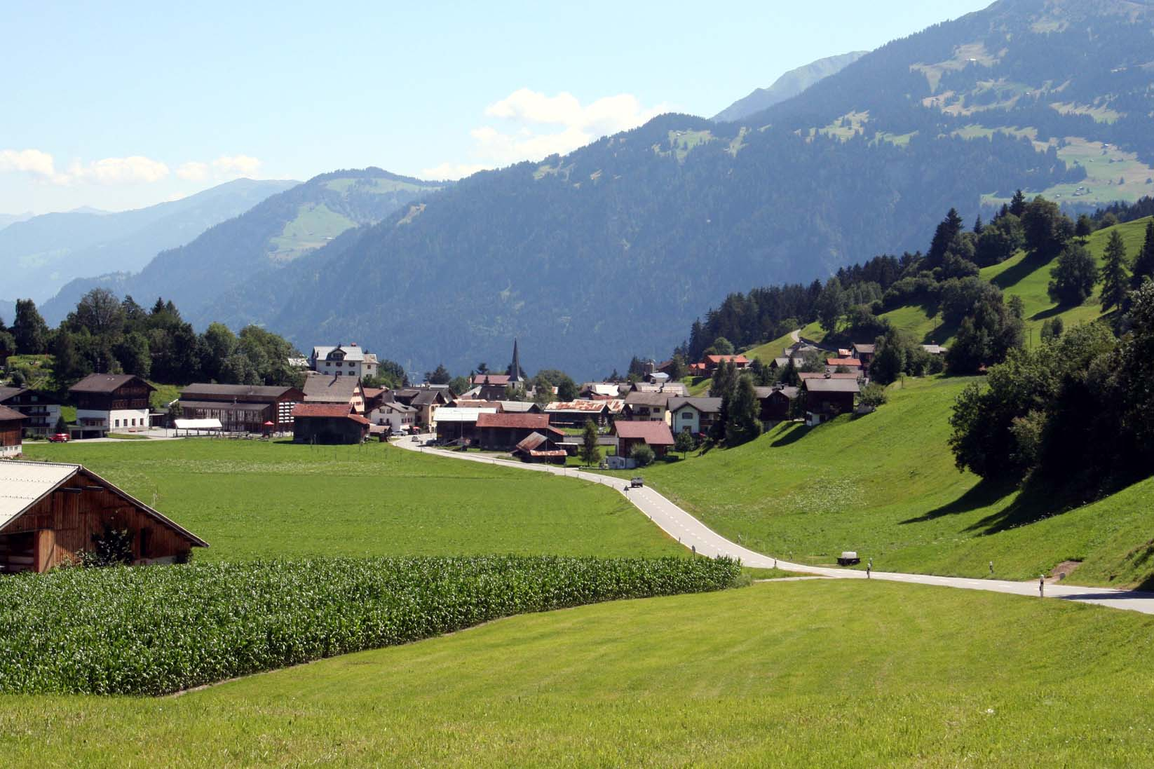 Flond